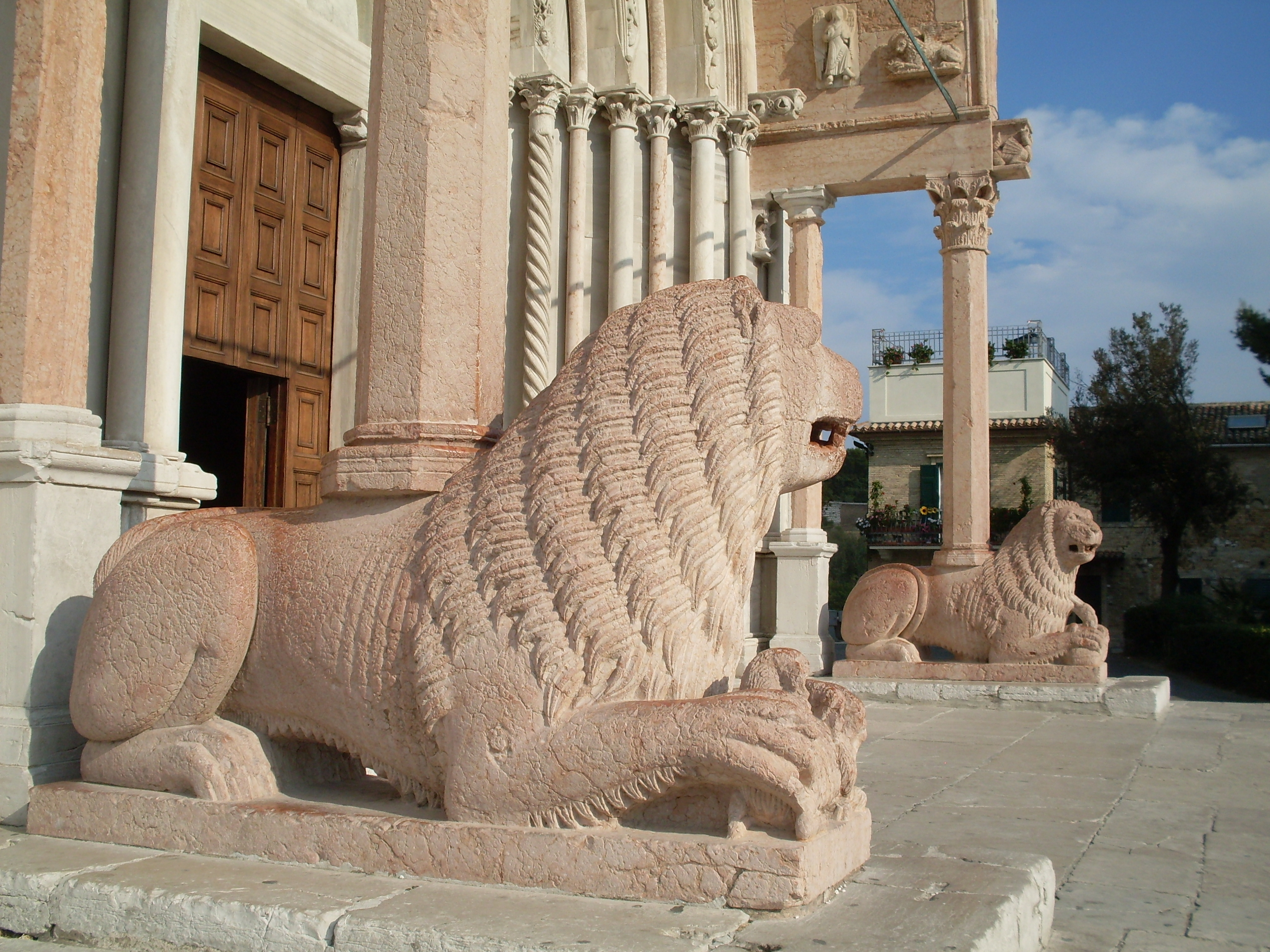 Ancona S.Ciriaco lions